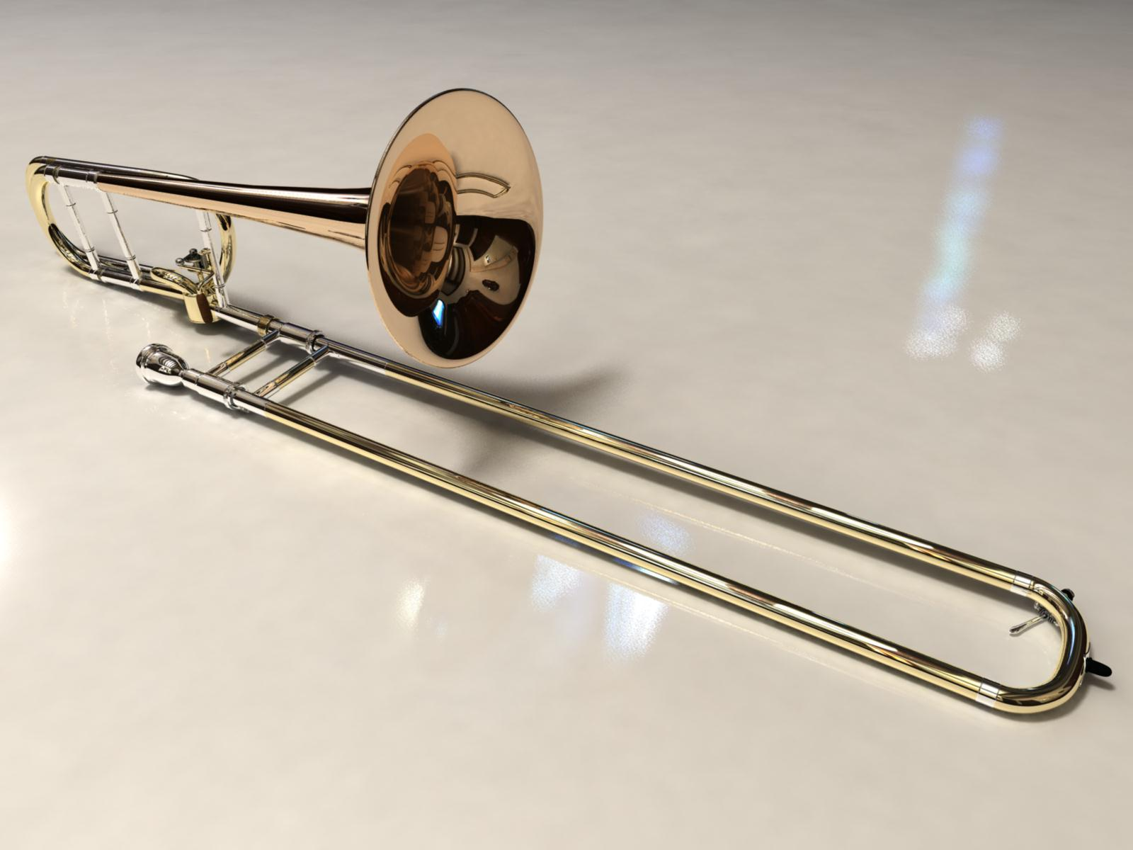 A Computer Graphics image of a Bach Stradivarius trombone model 42 AG